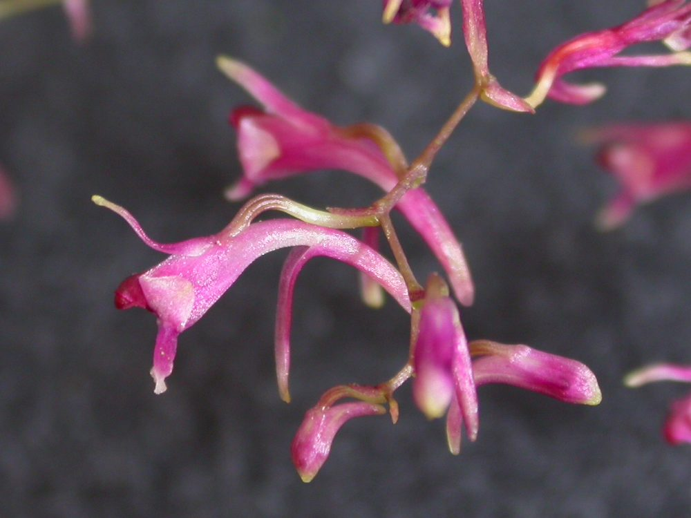 Diadenium micranthum